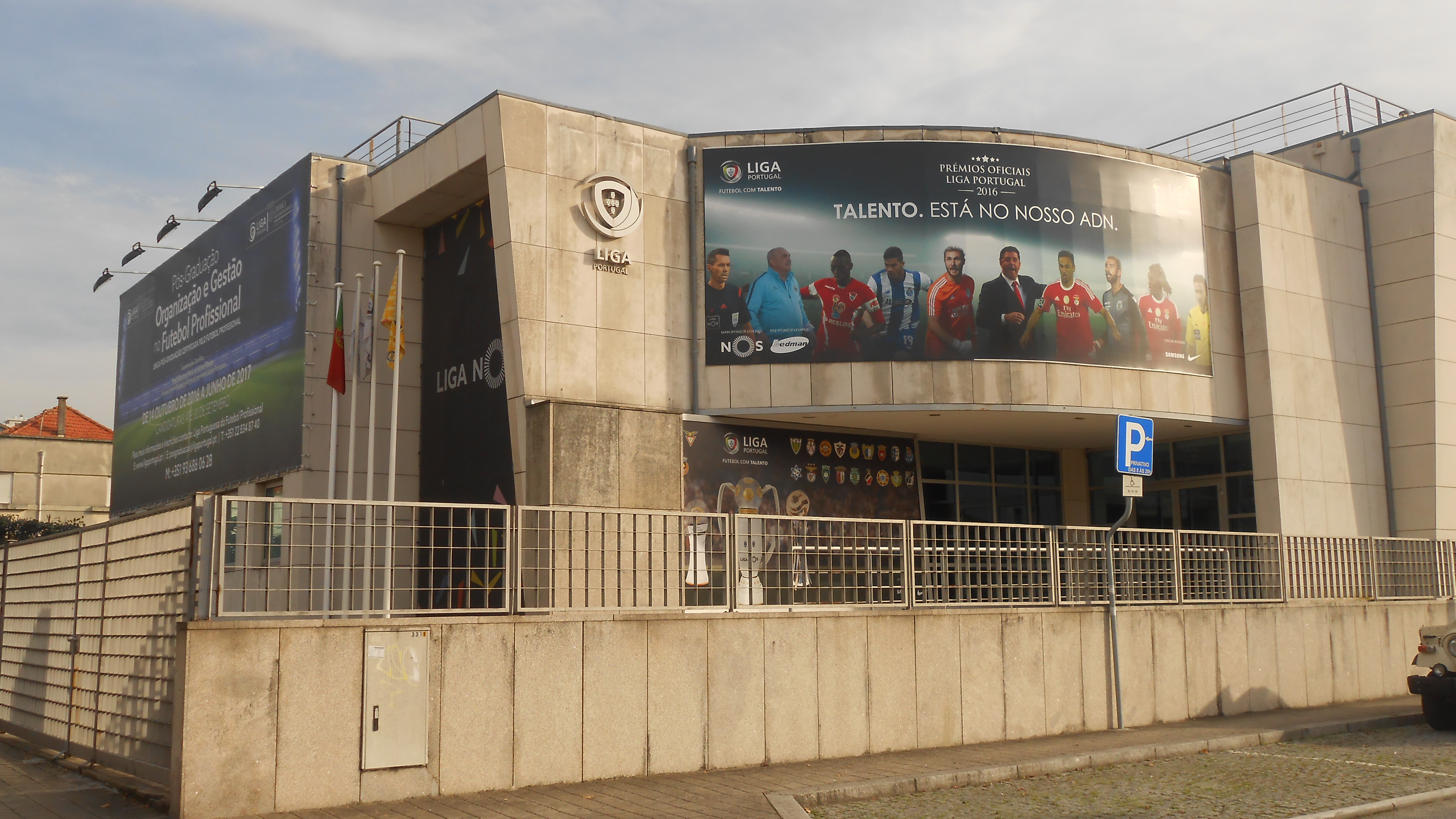 The headquarter of the Liga Portuguesa de Futebol Profissional. Founded in 1978, it is the governing body for professional football in Portugal.